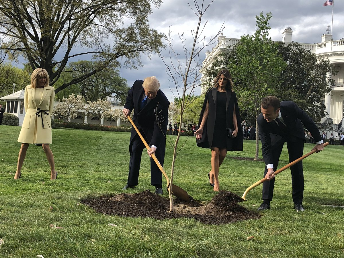 Presidents Donald Trump, his wife Melania, and Emmanuel Macron and his wife Brigitte, plant a tree at the White House at the start of the French leader's first official visit to Washington, April 23, 2018.